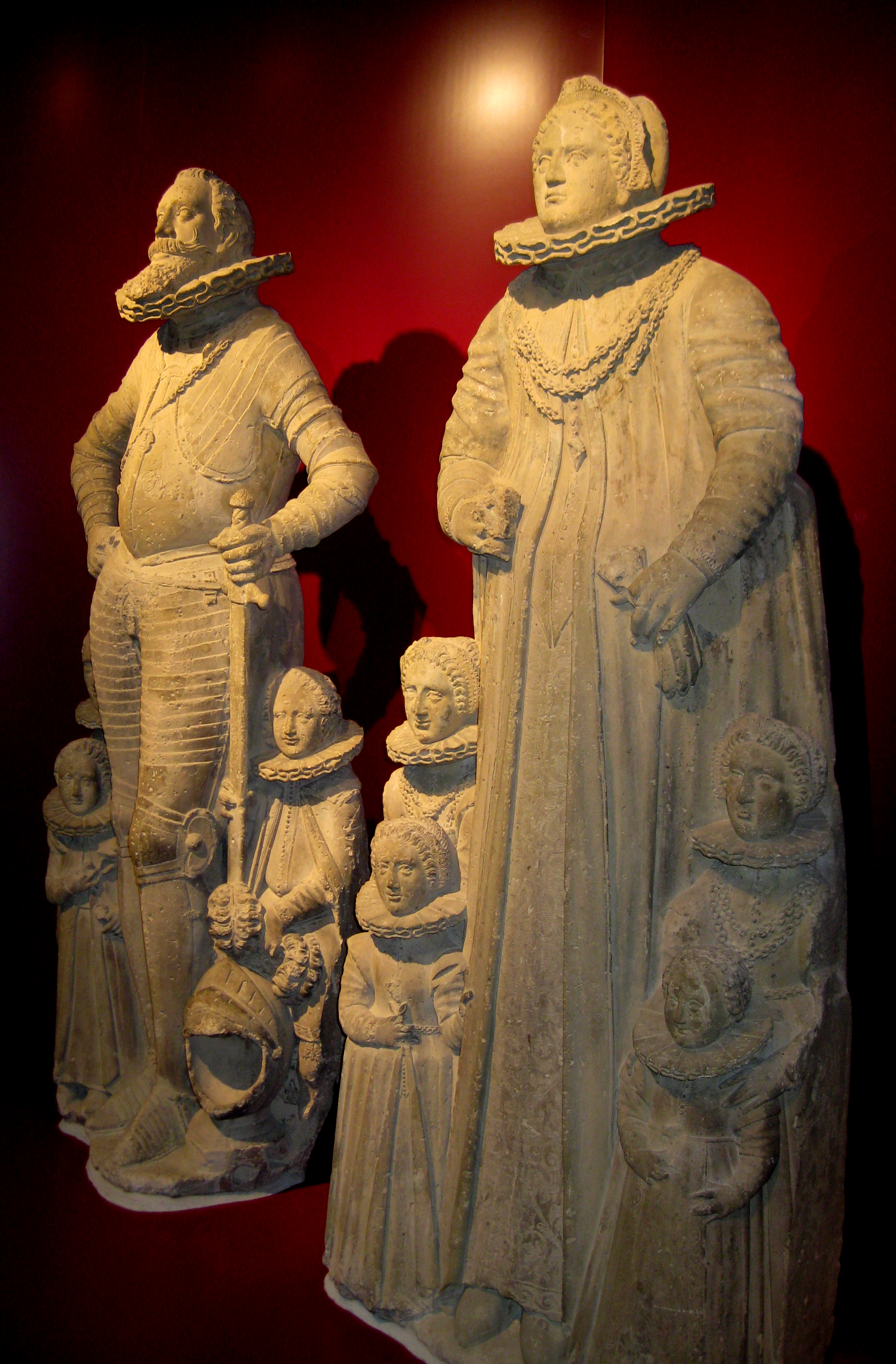 Toms of Jobst von Struenckede (+1603) an Hendrika von Hatzfeld in the Emschertal-Museum Schloss Struenkede, Herne